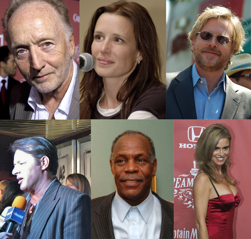 Significant cast members of the Saw film series, actors to have appeared in more than one film or received recognition for their participation including (left to right, starting with the top row) Tobin Bell, Shawnee Smith, Cary Elwes, Costas Mandylor, Danny Glover and Betsy Russell.